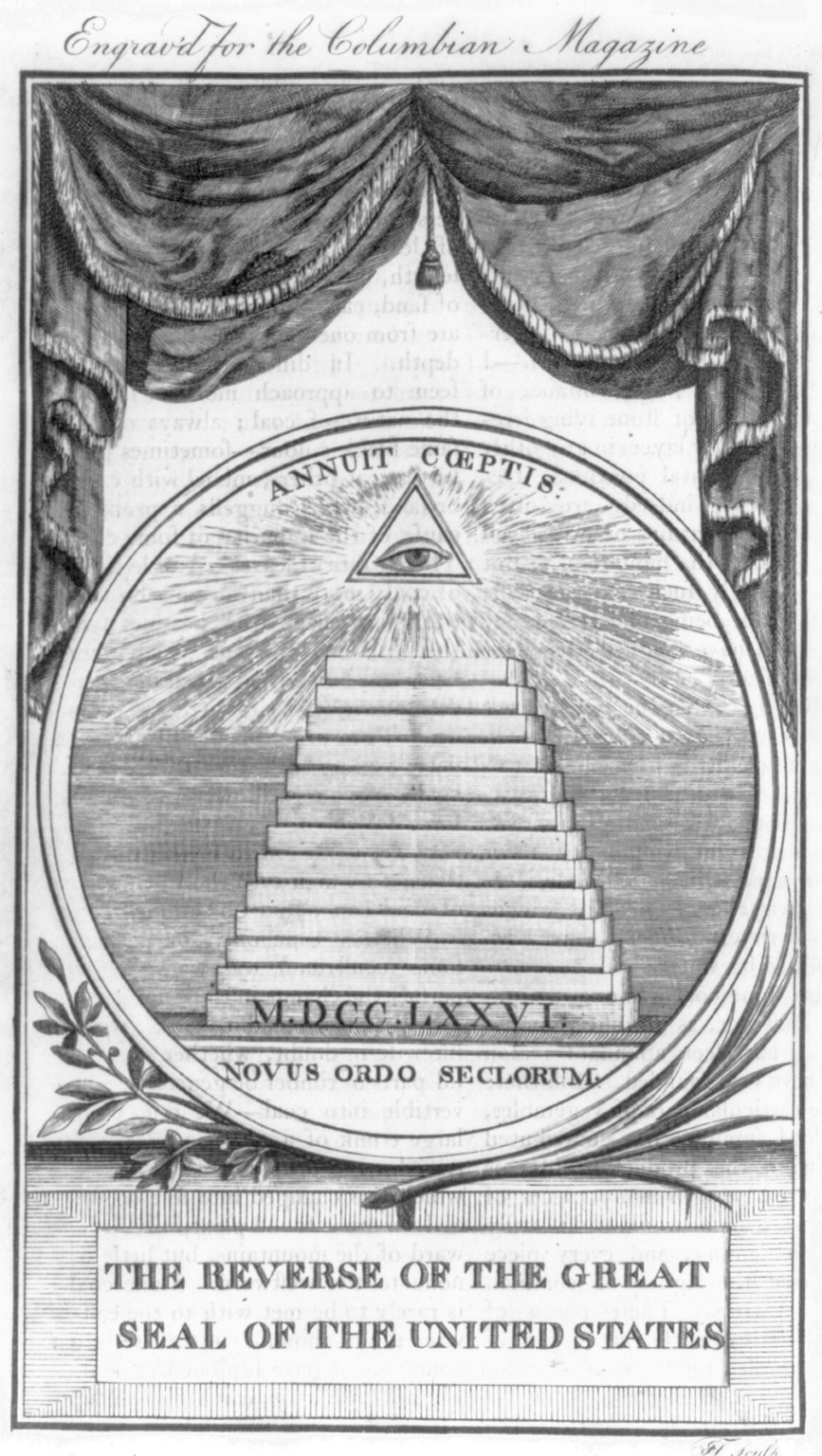 One of the first versions of the reverse of the Great Seal of the United States, also the U.S. coat of arms, engraved for the September or October 1786 Columbian Magazine. This is an original interpretation from the written blazon, though it has some similarities to a Continental banknote designed by Francis Hopkinson in the 1770s. This version was used on a centennial medal in 1882.